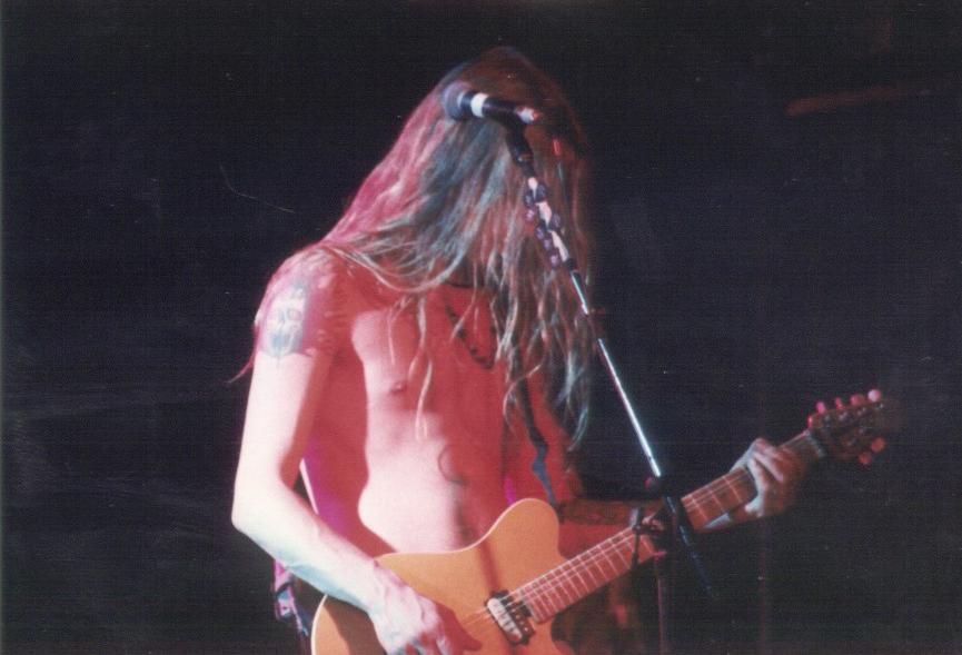 Jerry Cantrell playing with Alice in Chains at The Channel in Boston, MA.